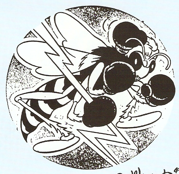 Scanned from *Crowder, Michael J. (2000). United States Marine Corps Aviation Squadron Lineage, Insignia & History - Volume One - The Fighter Squadrons. Turner Publishing Company. ISBN 1-56311-926-9. Squadron logo for VMF-461